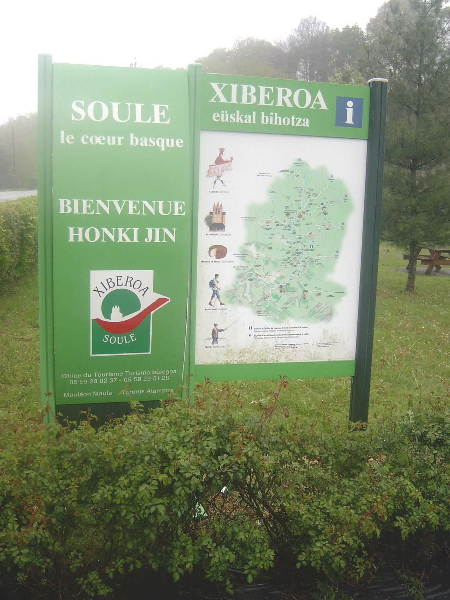 Welcome sign in Basque and French languages at the entrance of Soule: "Bienvenue. Soule, le cœur basque." Soule, Basque Country.